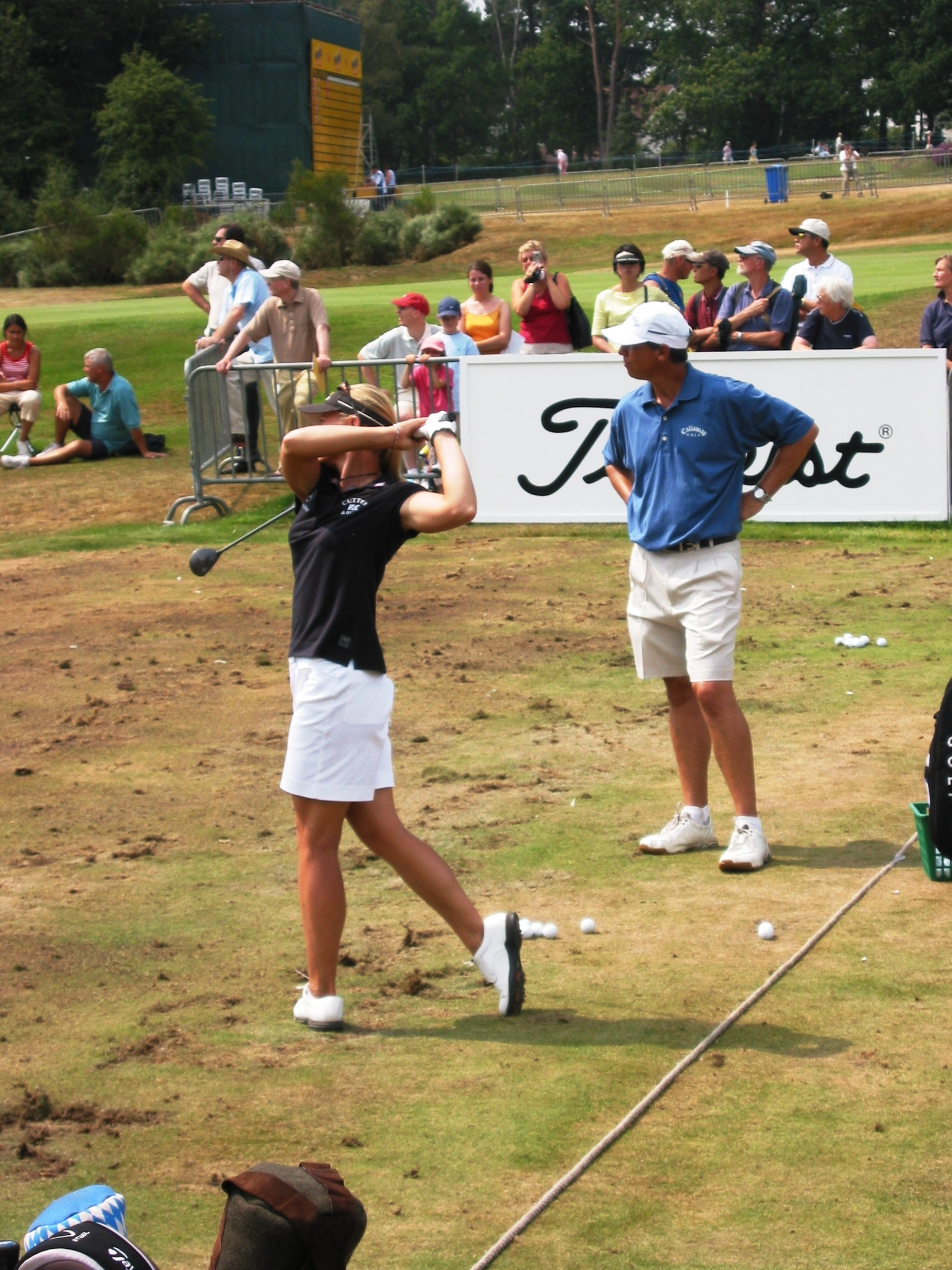 Annika Sorenstam on the driving range on Day 4 of the Women's British Open 2004 at Sunningdale Golf Club